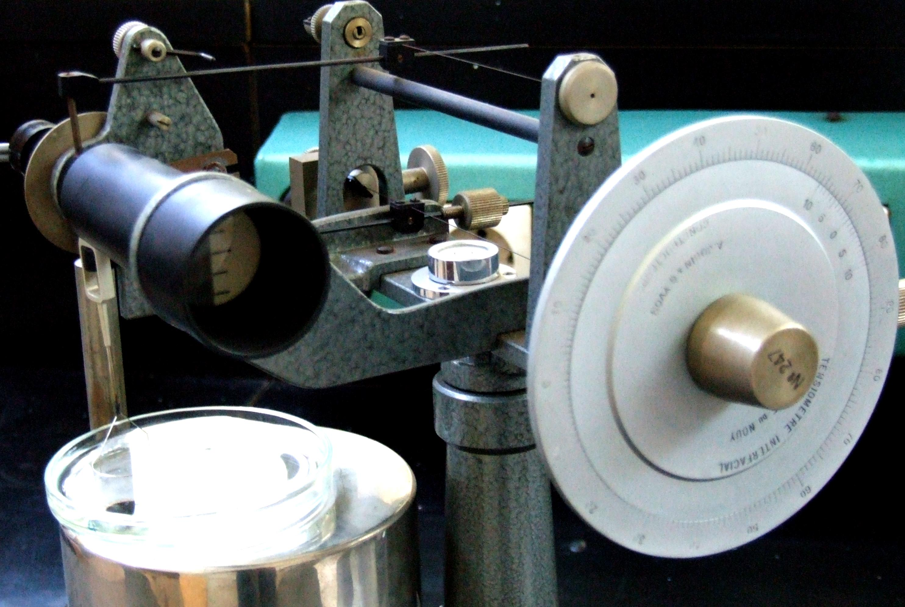 Pt-Ir ring of a Du Nouy type tensiometer. Du Nouy rendszerű, Pt-Ir-gyűrűs tenziométer.